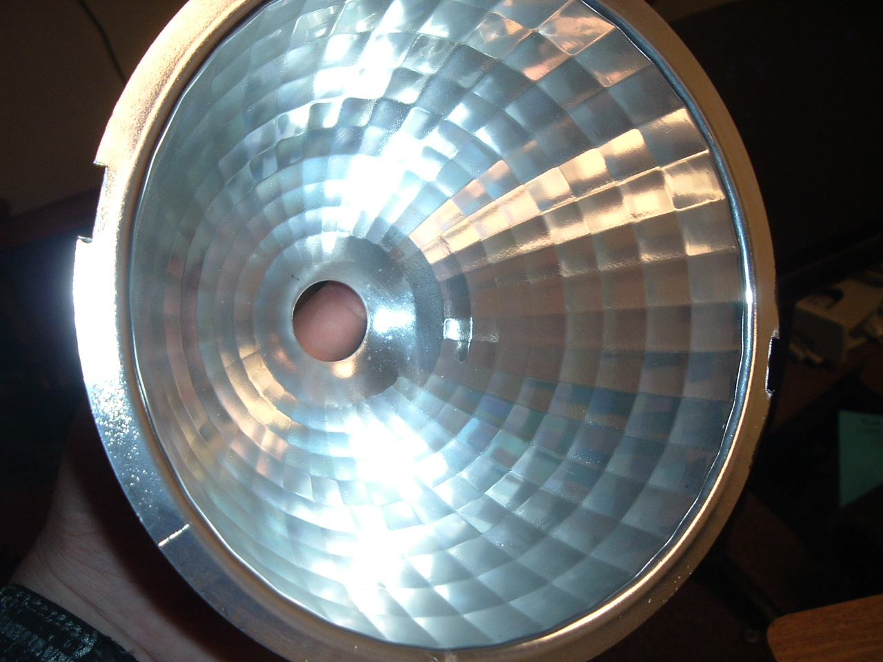 The reflector from a Lekolite. Photo by KeepOnTruckin.